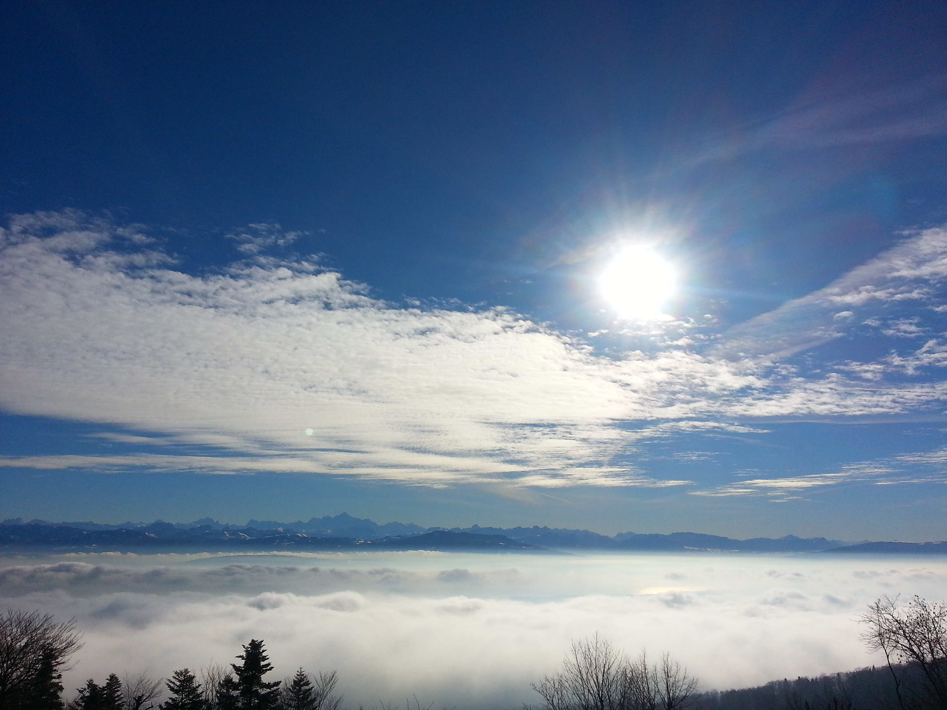 Leman Under clouds